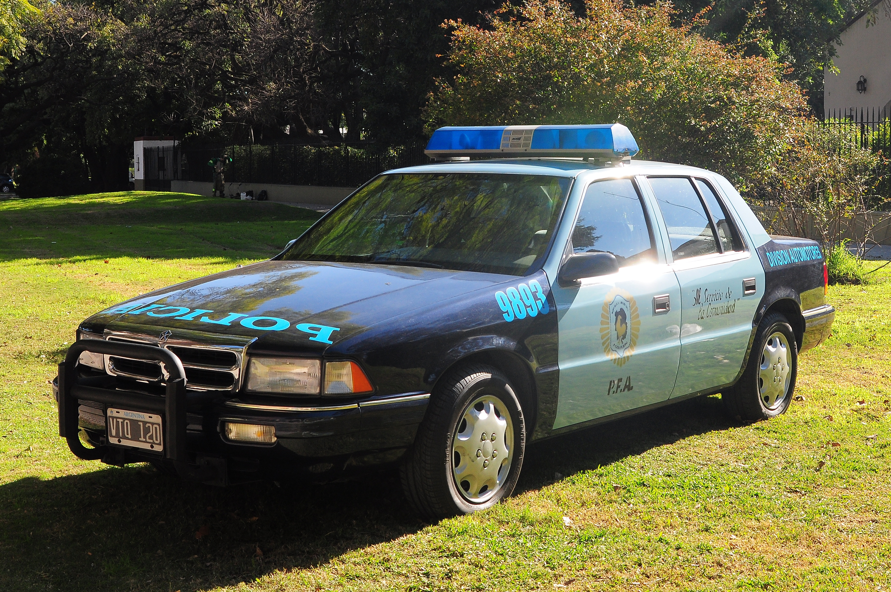 Chrysler Spirit - Argentine Federal Police